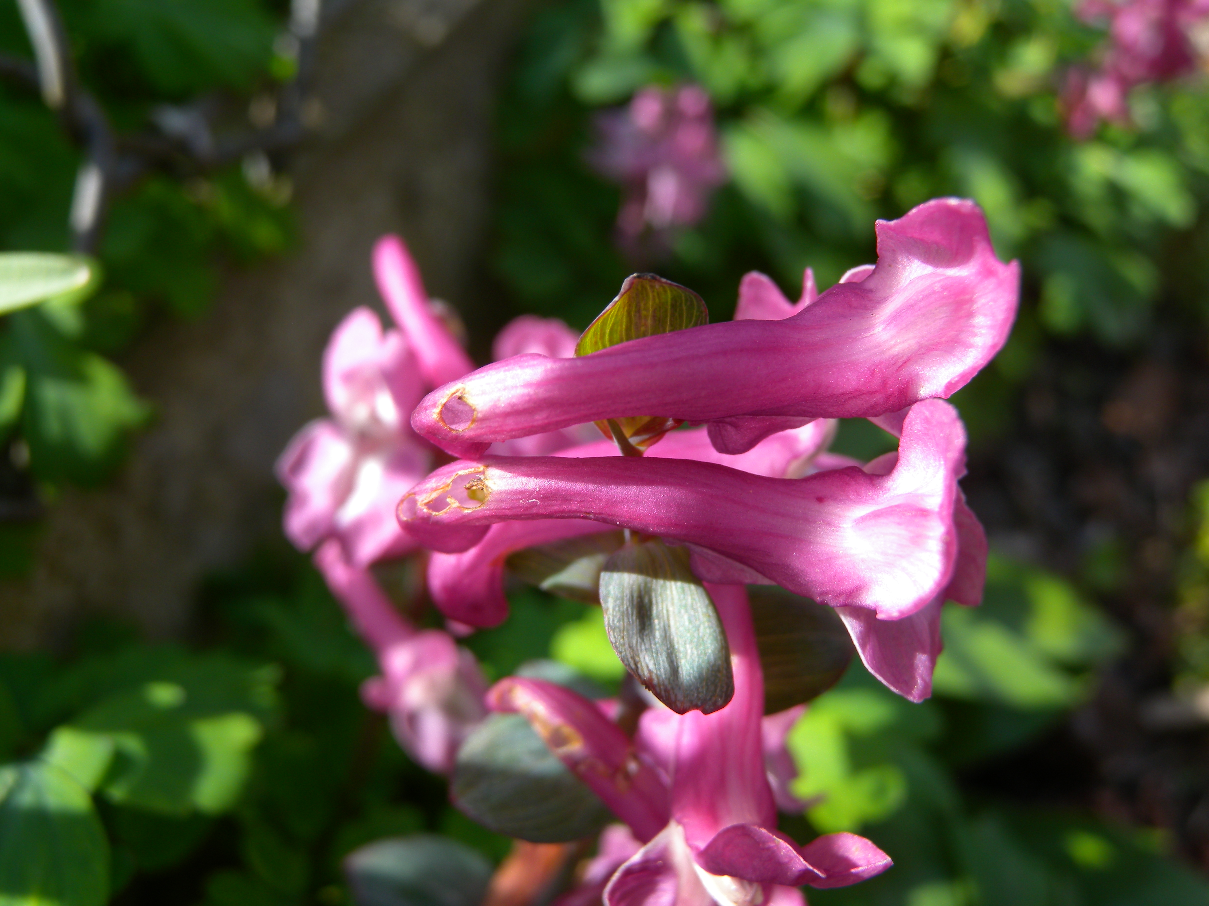 Nectar robbing: holes in the spur of Corydalis cava (Papaveraceae); Alte Aare near Aarberg, Canton of Bern, Switzerland